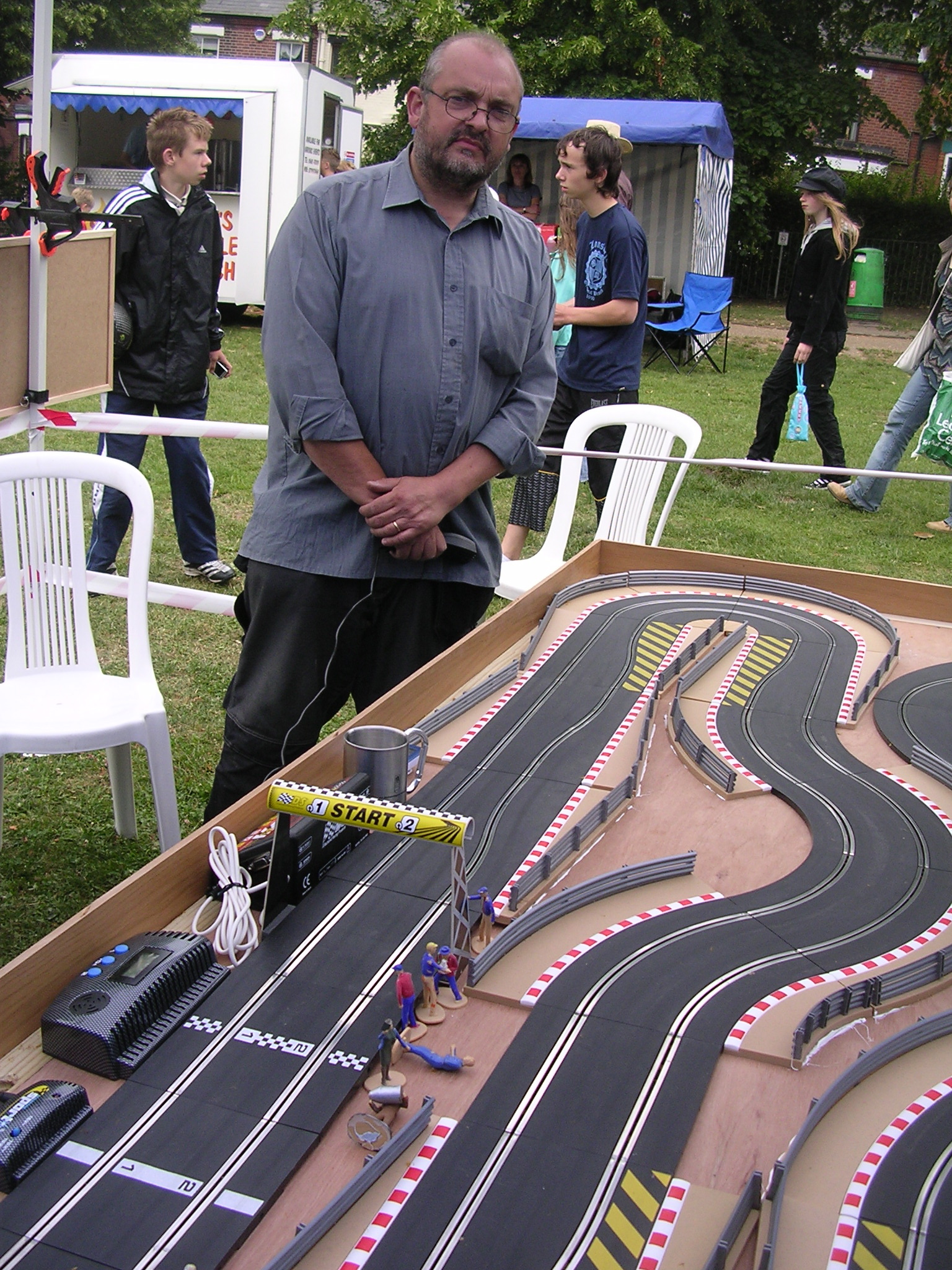 Side stand at Sewell park Centenary, Norwich, Norfolk UK. July 2008 Scalextric Sport track with a Scalextric WRC Ford Focus